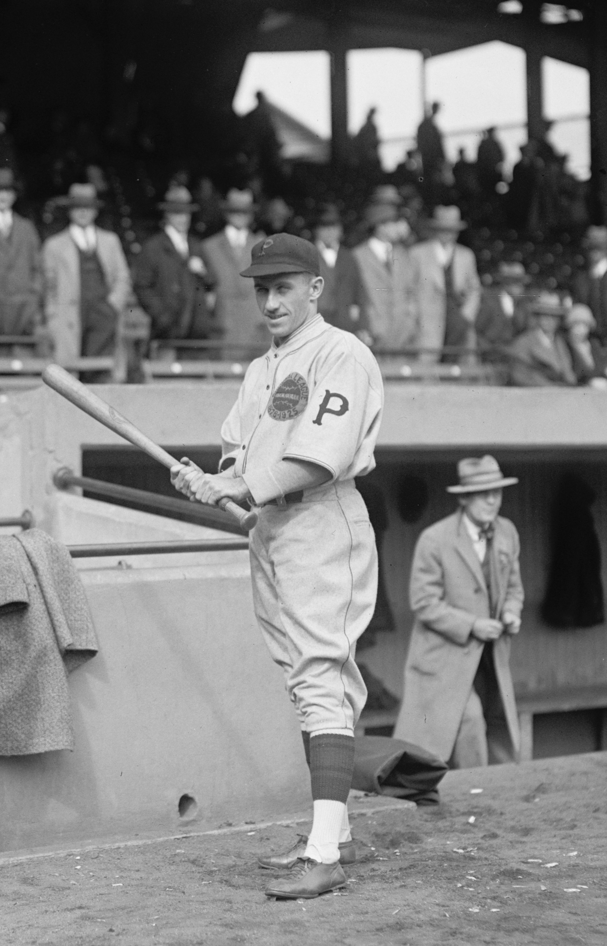 Title: Cuyler & McGraw Abstract/medium: 1 negative : glass ; 4 x 5 in. or smaller cropped